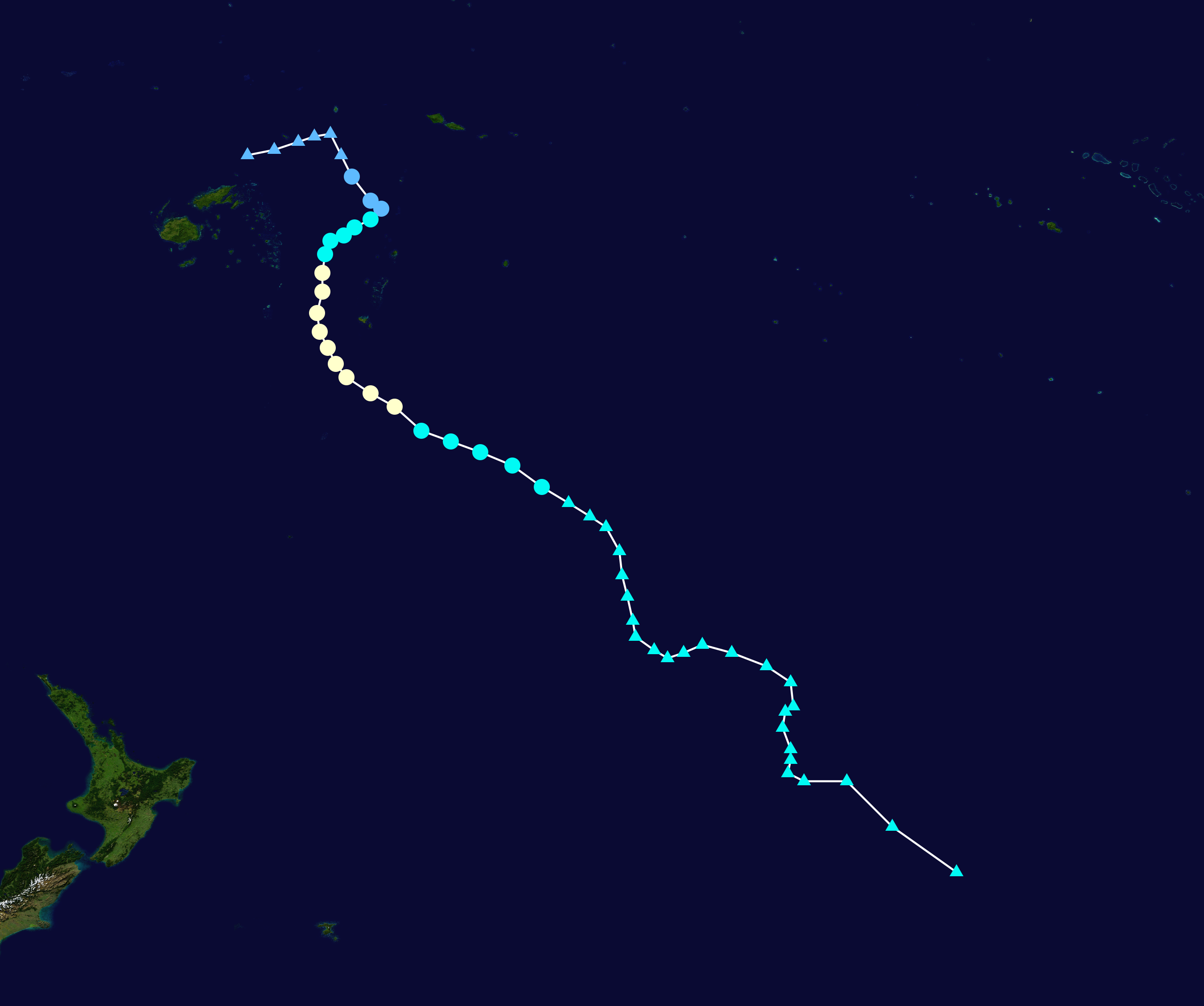 Cyclone Vaianu (2006) track. Uses the color scheme from the Saffir-Simpson Hurricane Scale.